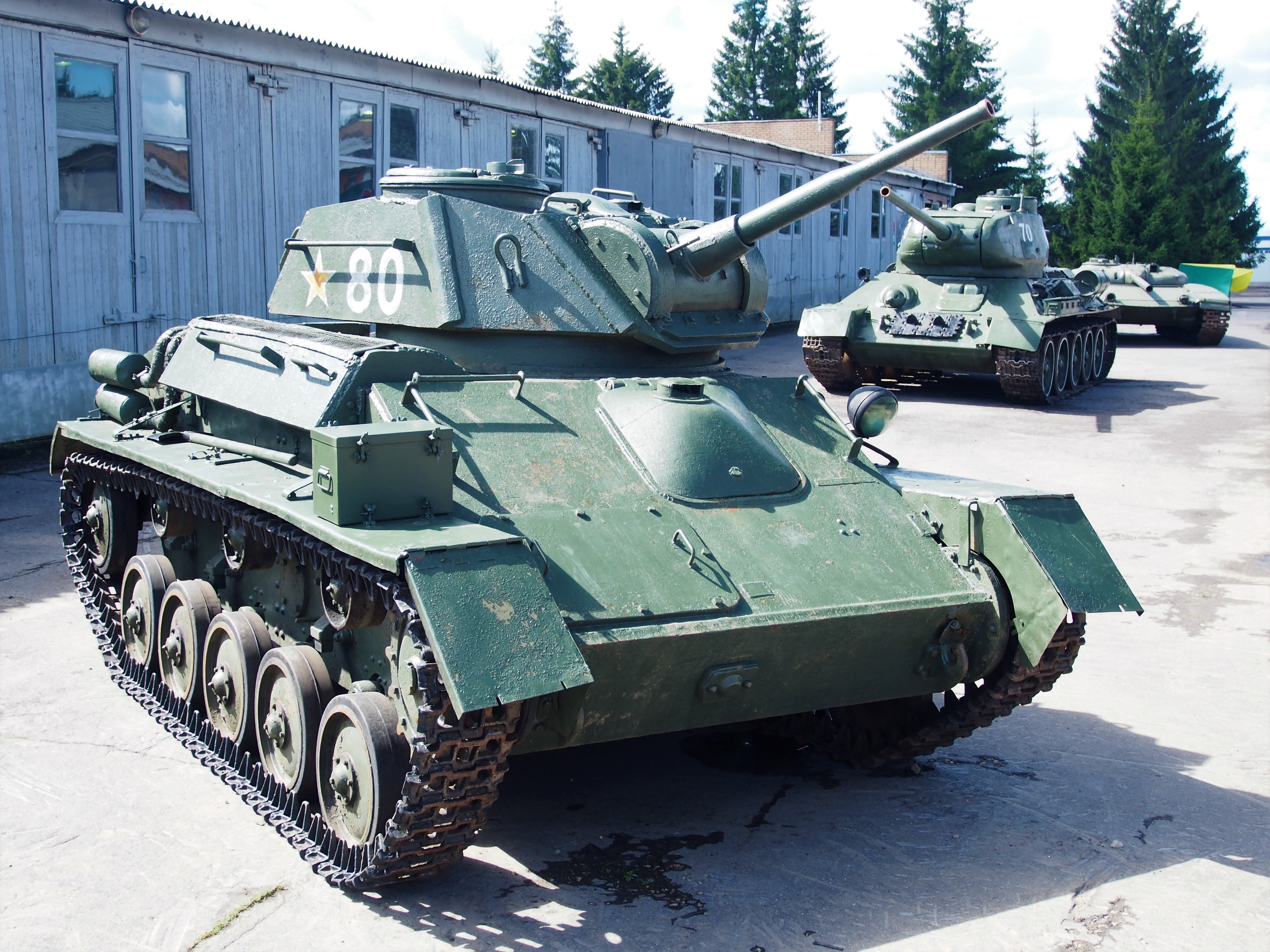 T-80 (light tank) in the Kubinka Museum.